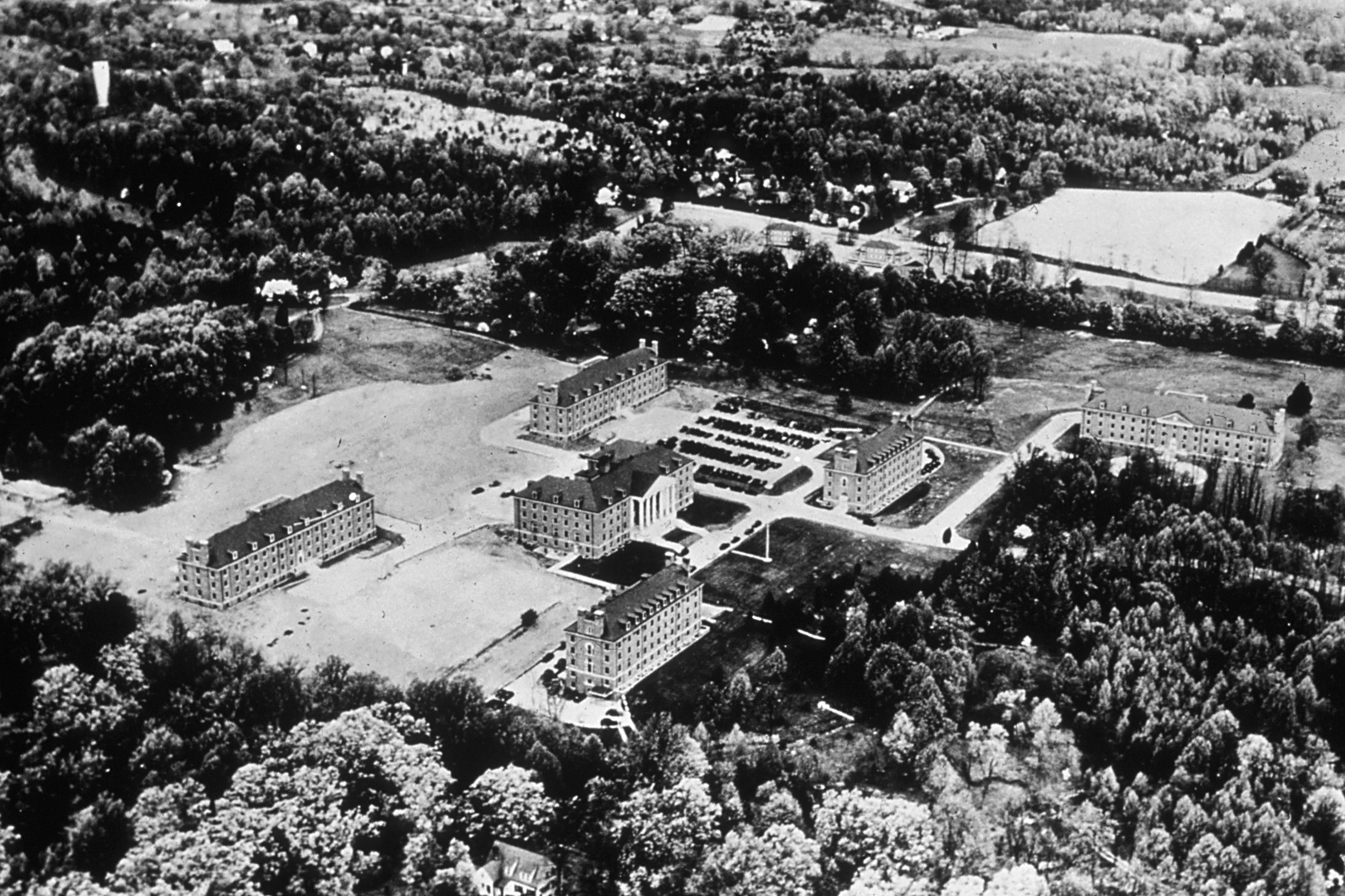 Title NIH Aerial Campus Photo Description 1940 aerial view of the NIH campus with six buildings. Topics/Categories Historical, Graphics Locations, NIH Type B&W, Photo Source National Library of Medicine